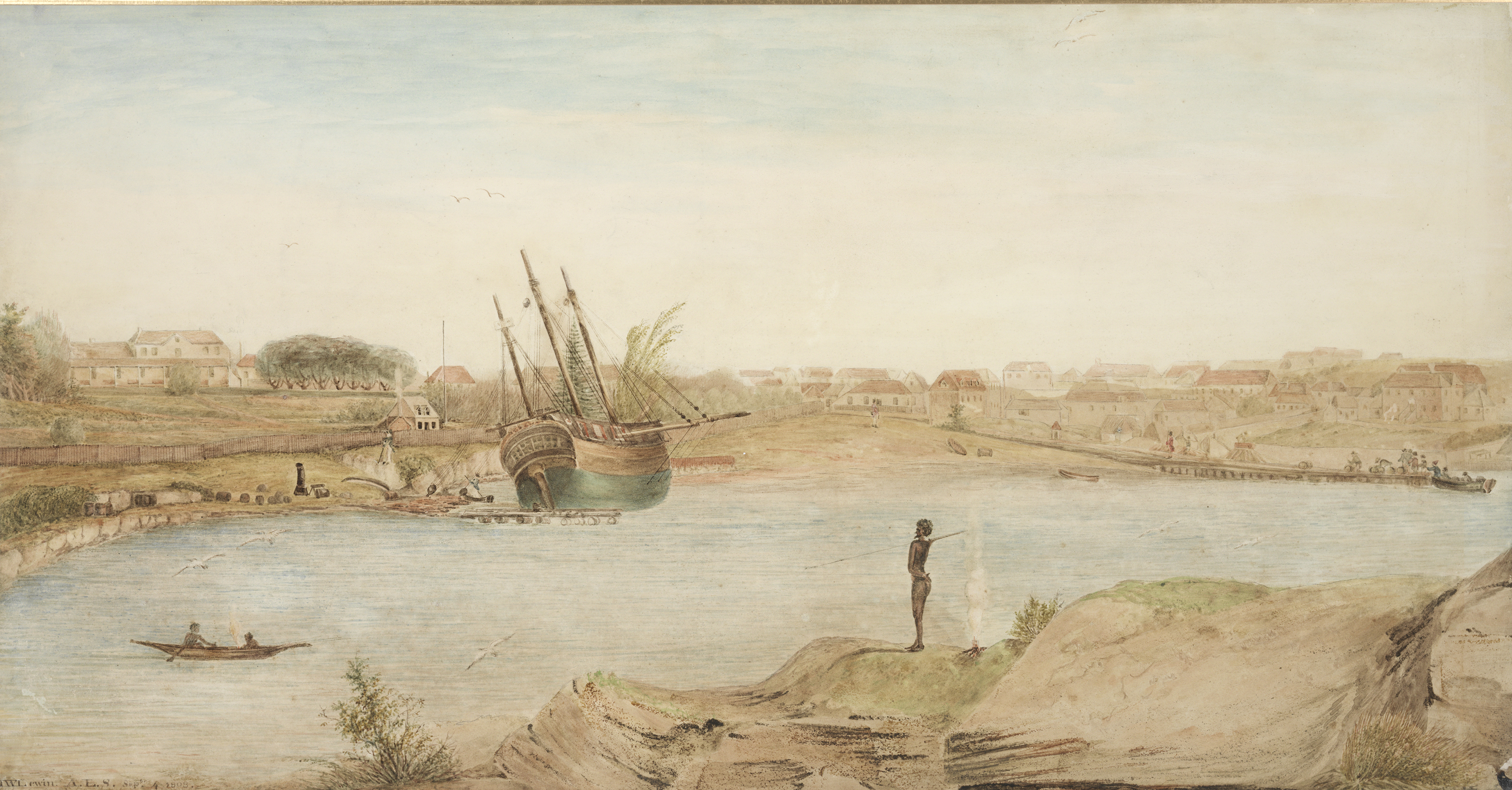 This image is a digital reproduction of a painting by John Lewin of Sydney cove in 1808. Details at the library include those on the canvas."[Sydney Cove], 1808 / by J.W. Lewin .(Lewin, J. W. (John William), 1770-1819). 1808. 1 watercolour drawing - 27.8 x 52.5 cm. sight. Inscriptions : Signed and dated at lower left, "I.W. Lewin A.L.S. Sepbr. 4th 1808 / New South Wales" Notes: Donor acknowledgment cited on frame. Source : Bequeathed by Miss Helen Banning.